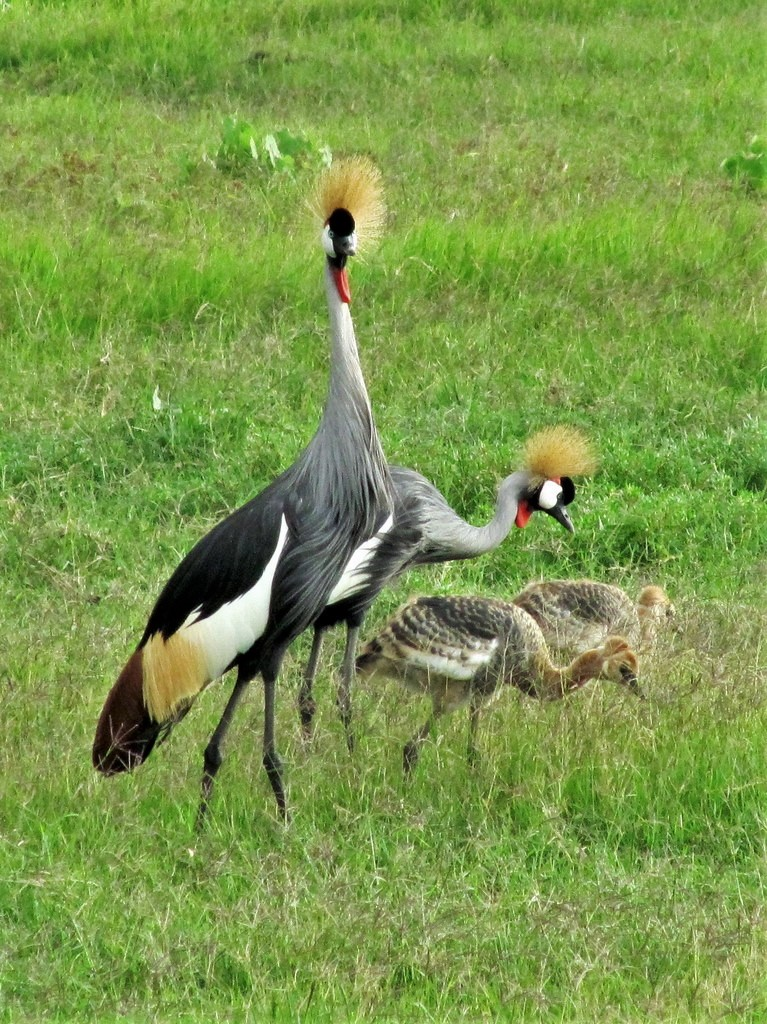 Grey Crowned Cranes with chicks in Amboseli National Park, Kenya